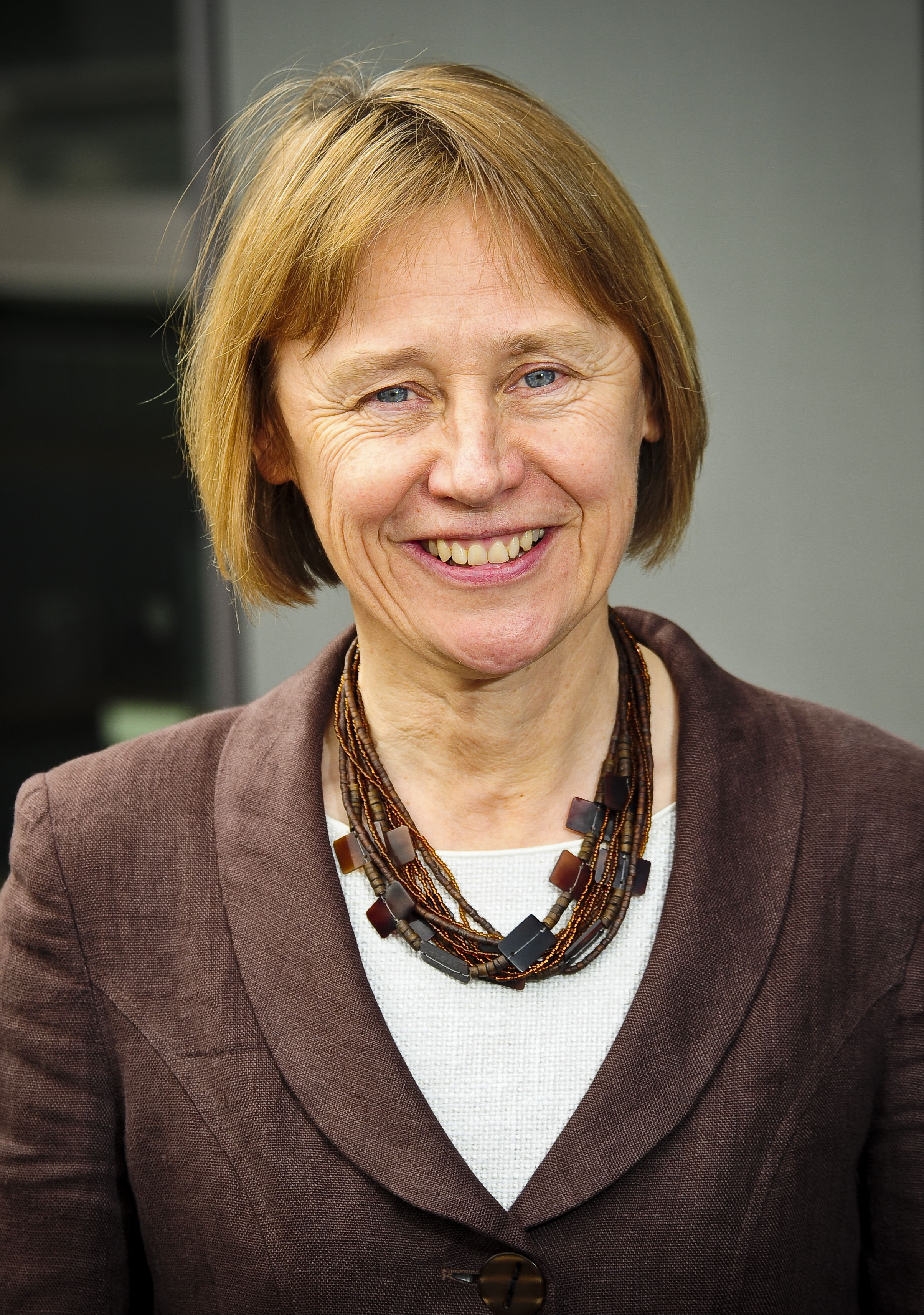 Lin Homer, a British civil servant serving as Chief Executive of HMRC.